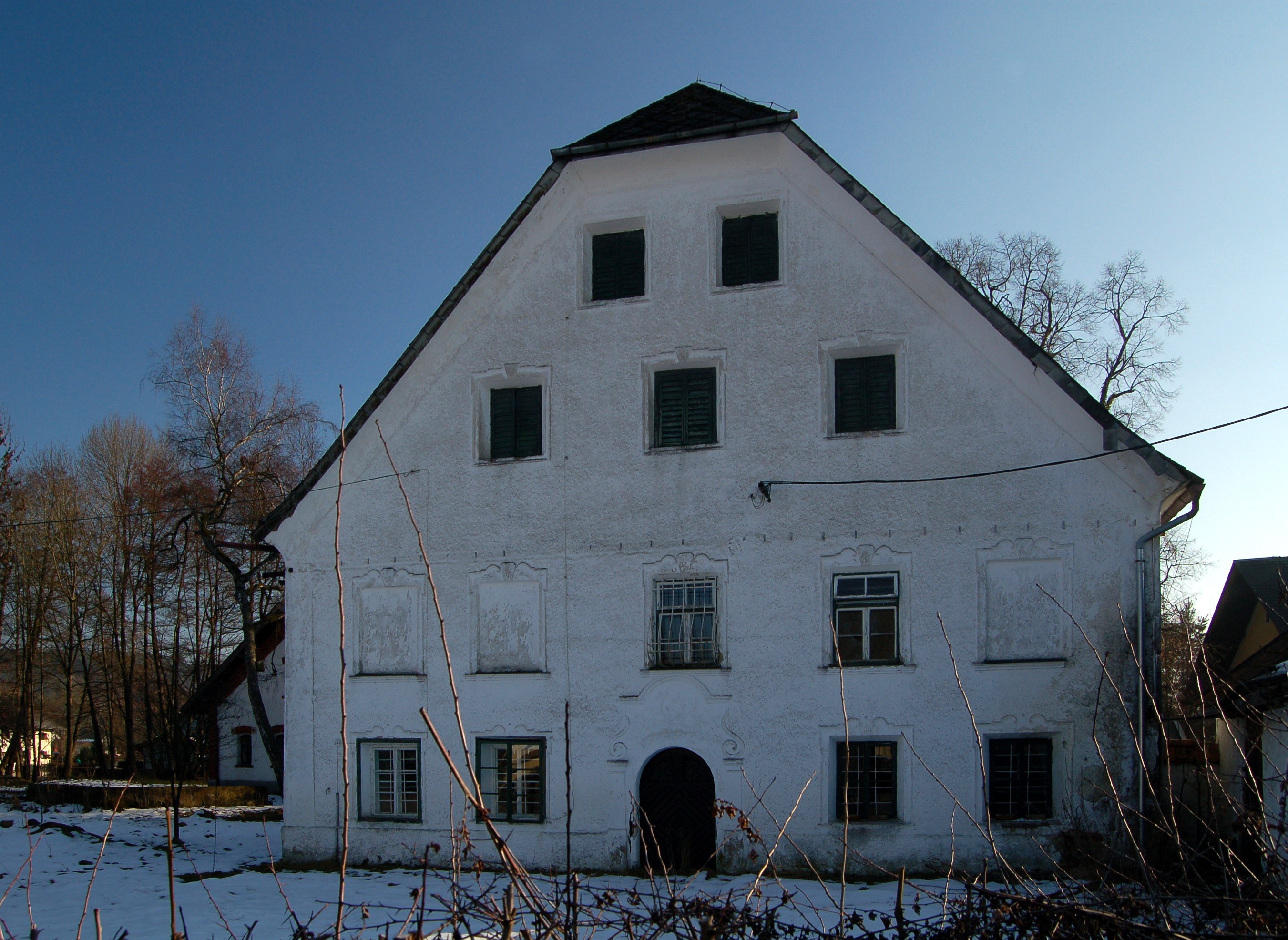 Herrenhaus Kaltenbrunner Schalchen, built in 1898. North (rear) side.